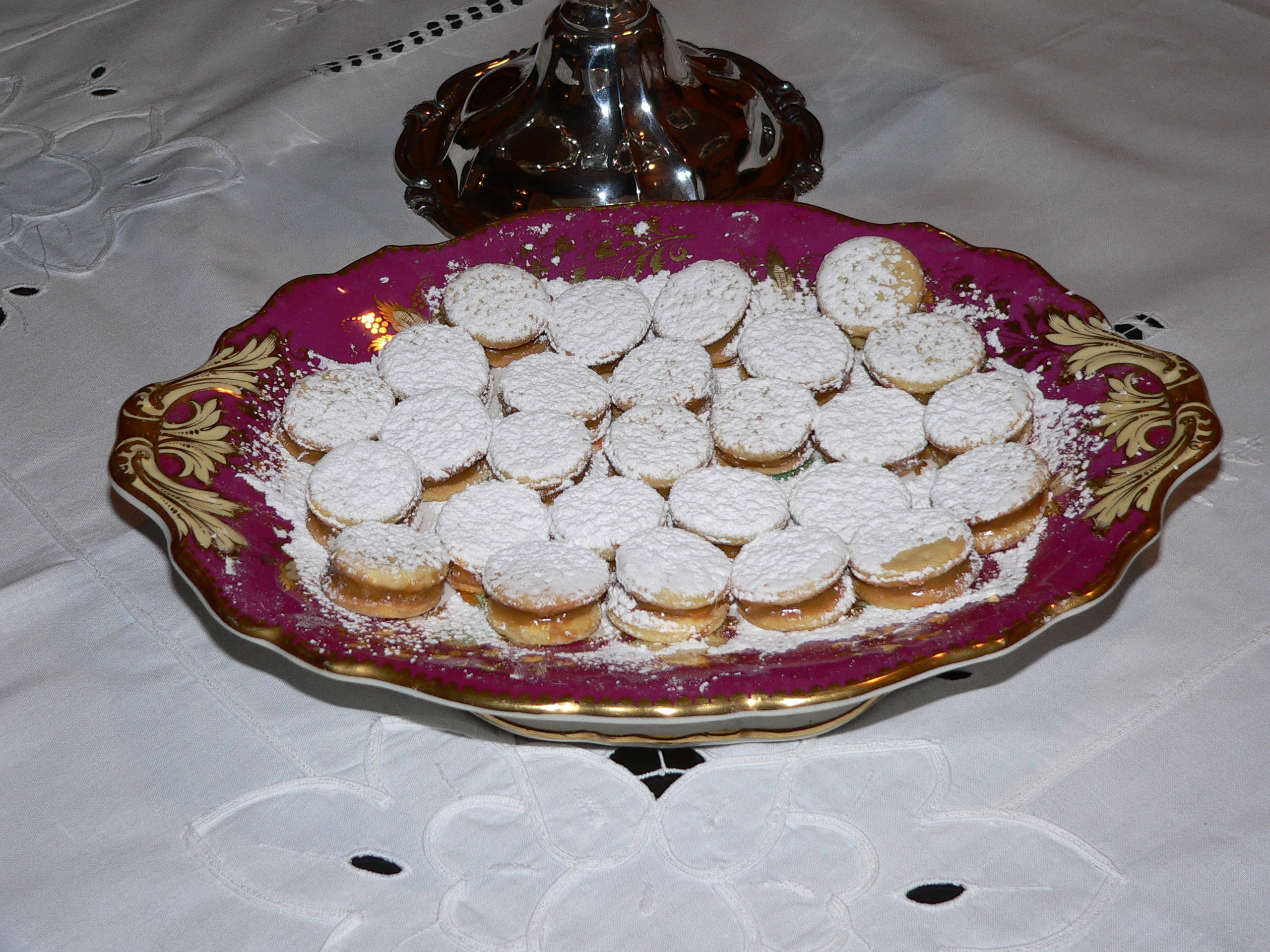 Description: Alfajores Subject: Peruvian cuisine Country : Peru Photographer: © Manuel González Olaechea y Franco Shot date : October, 22nd , 2005